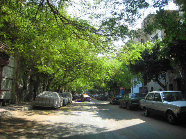 Taken from El-Gesr Street in Shobra, Cairo. This street is almost entirely covered with Trees.